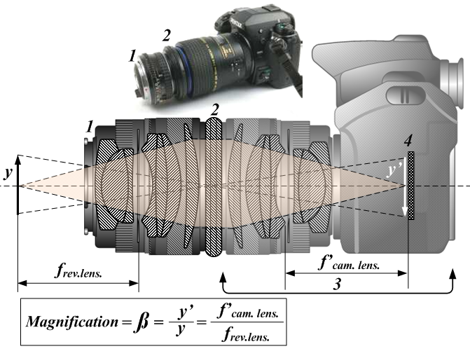 Reversed lens macro photography.1 - Reversed lens2 - Reversed lens adapter ring.3 - Camera.4 - Film or sensor.y - Image high.y'- Film or sensor high.Example: f - reversed lens = 50 mm ; f' - camera lens = 50 mm ; ß = ? ß = f' cam. lens / f rev.lens = 50 / 50 = 1 / 1